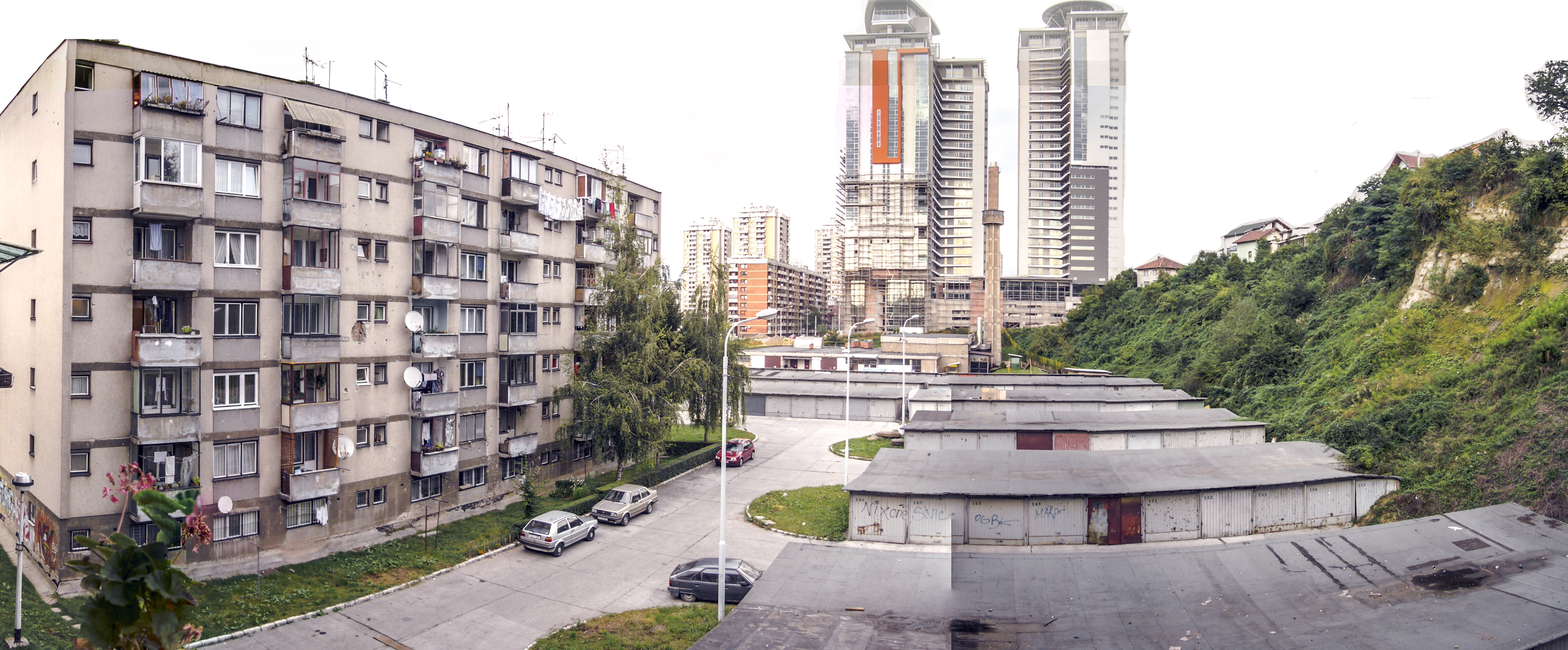 Bosmal City Center view from Čengić Vila II, Sarajevo suburb in 2005